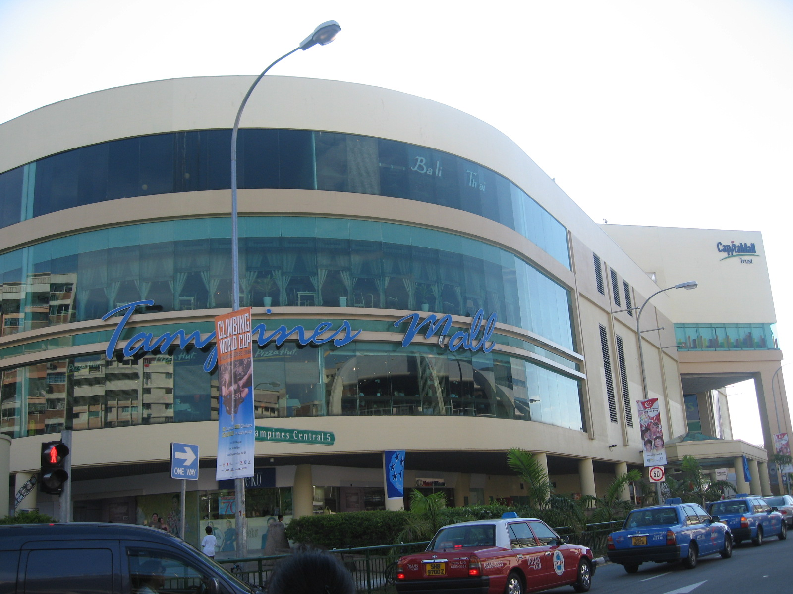 Tampines Mall.